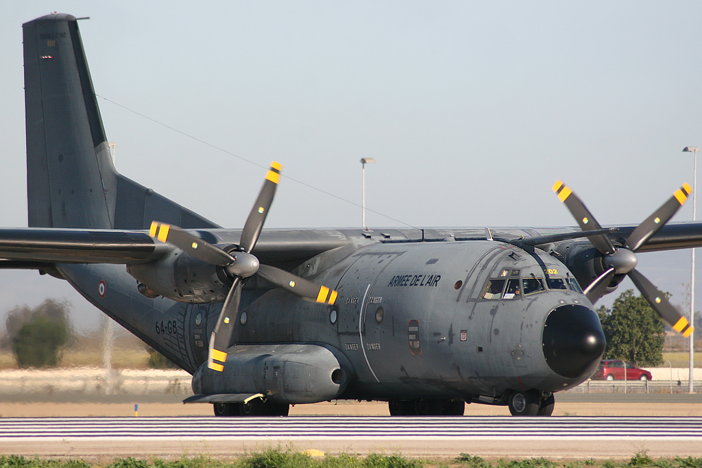 Comming to get some pieces of EADS CASA factory.